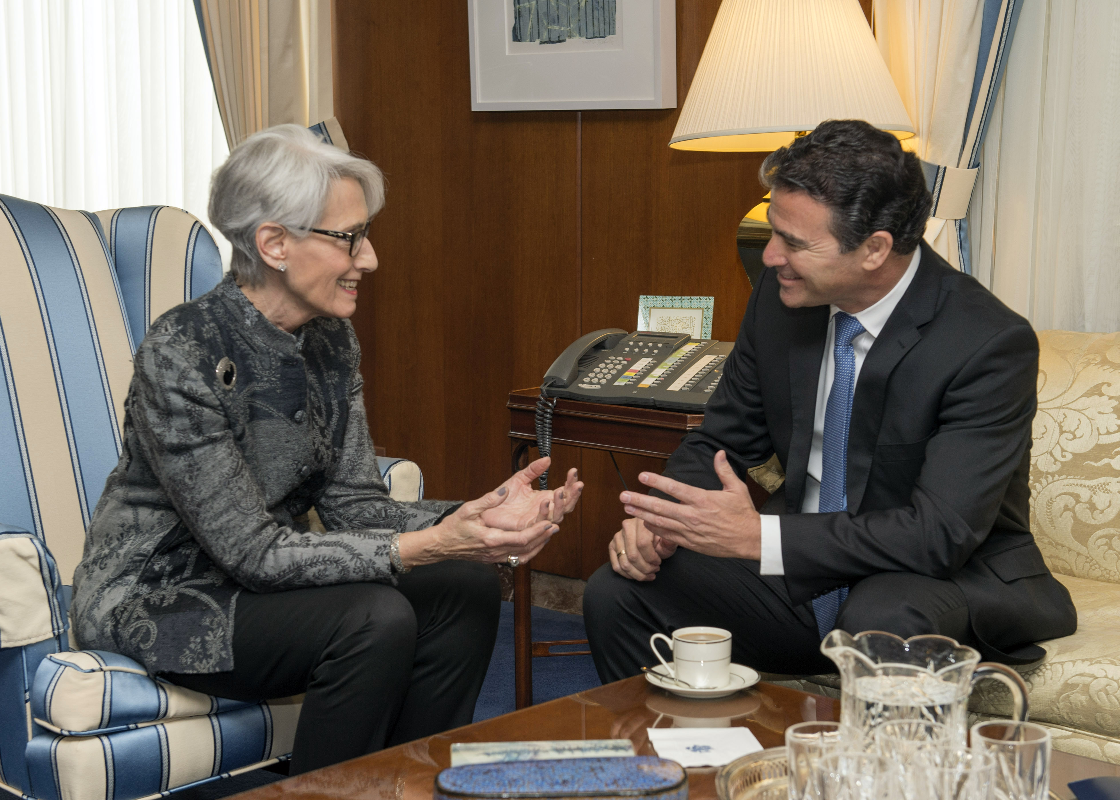 Under Secretary for Political Affairs Wendy Sherman meets with Yossi Cohen, National Security Advisor to the Prime Minister of Israel, at the U.S. Department of State in Washington, D.C., on February 18, 2015. [State Department photo/ Public Domain].